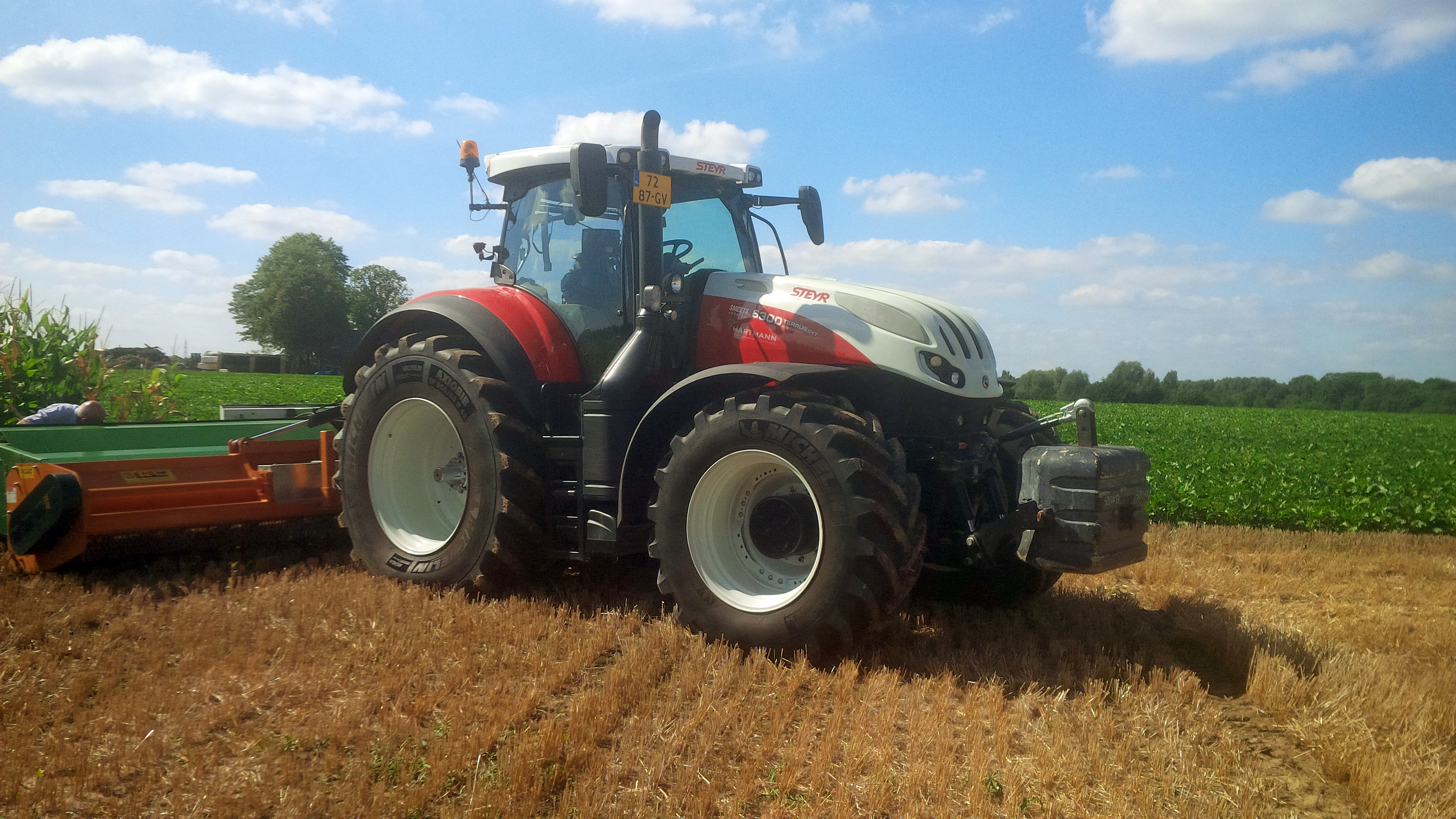 Steyr Terrus 6300 tractor